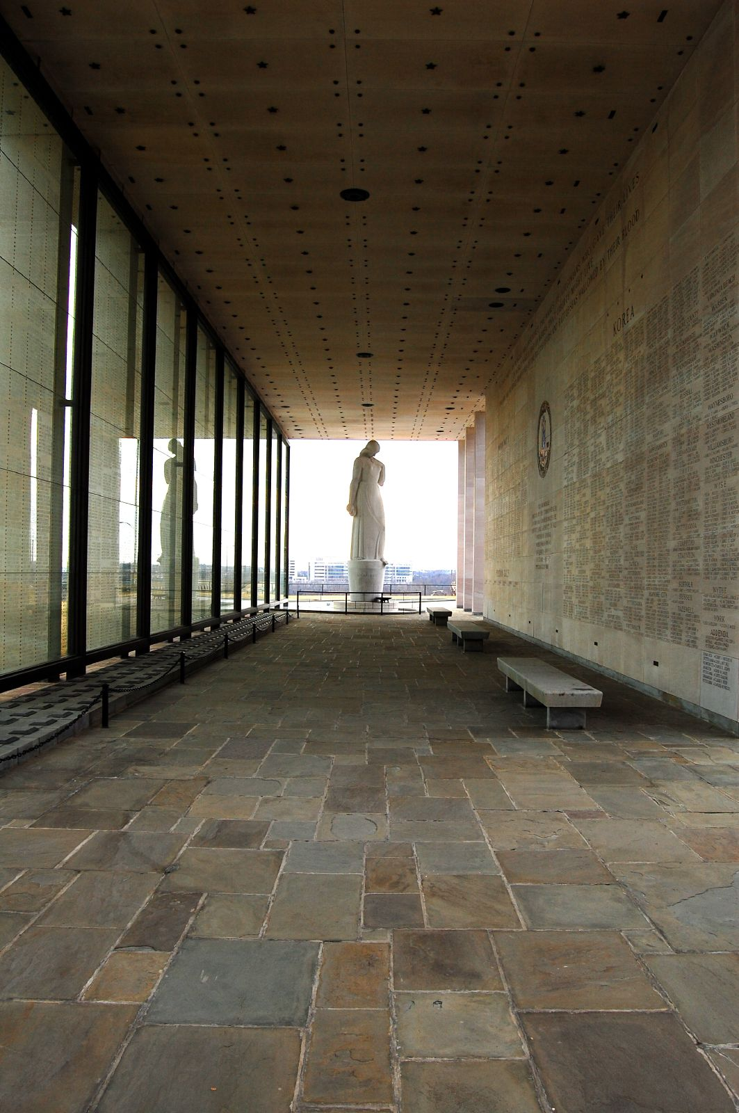 Interior of the Virginia War Memorial in Richmond, Virginia. The statue at the end of the building is titled "Memory". Names from Virginia soldiers killed in all of the wars since WWII are inscribed on the stone wall and glass panels.